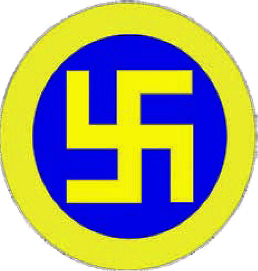 55th Fighter Squadron Emblem, 1930-1932